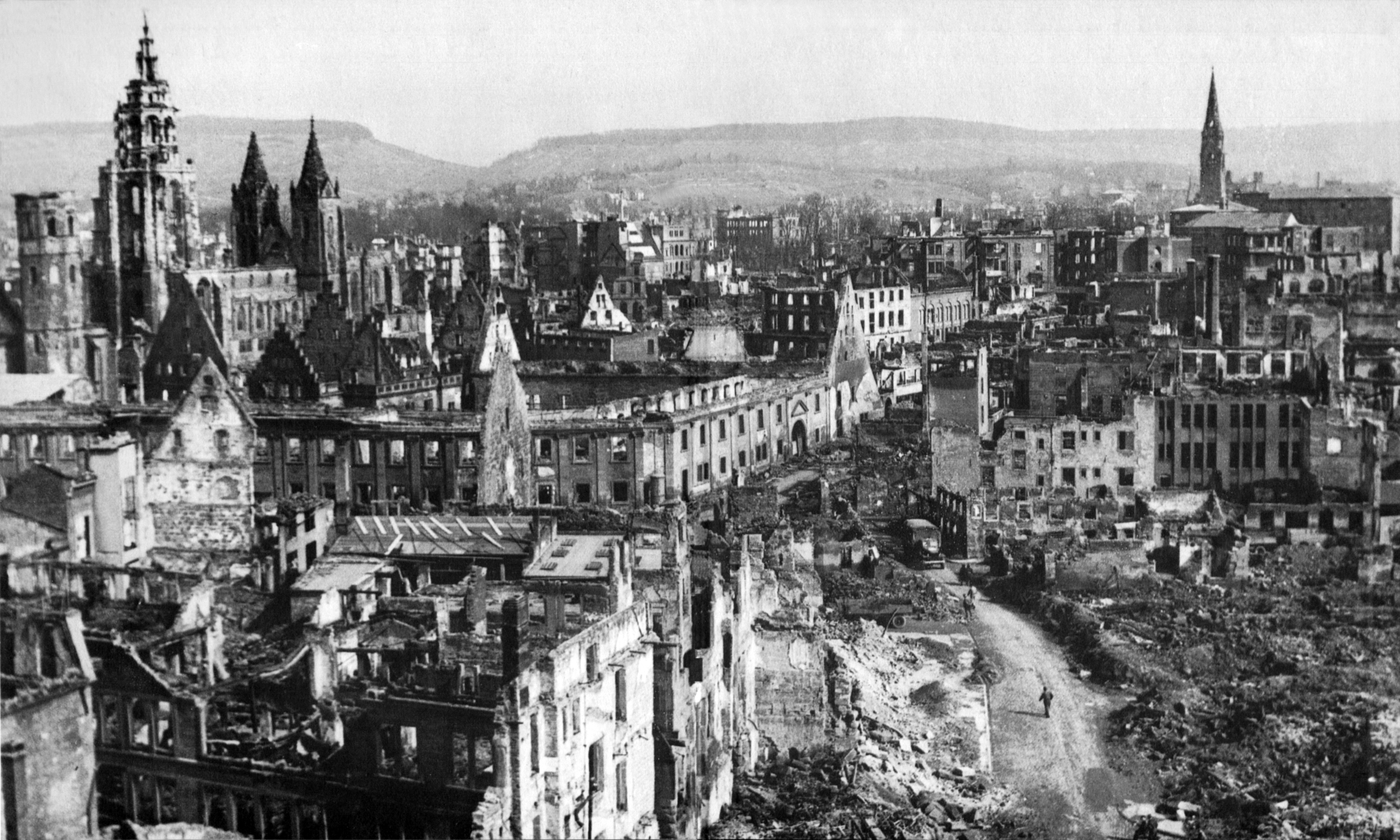 Heilbronn after the end of the Second World War